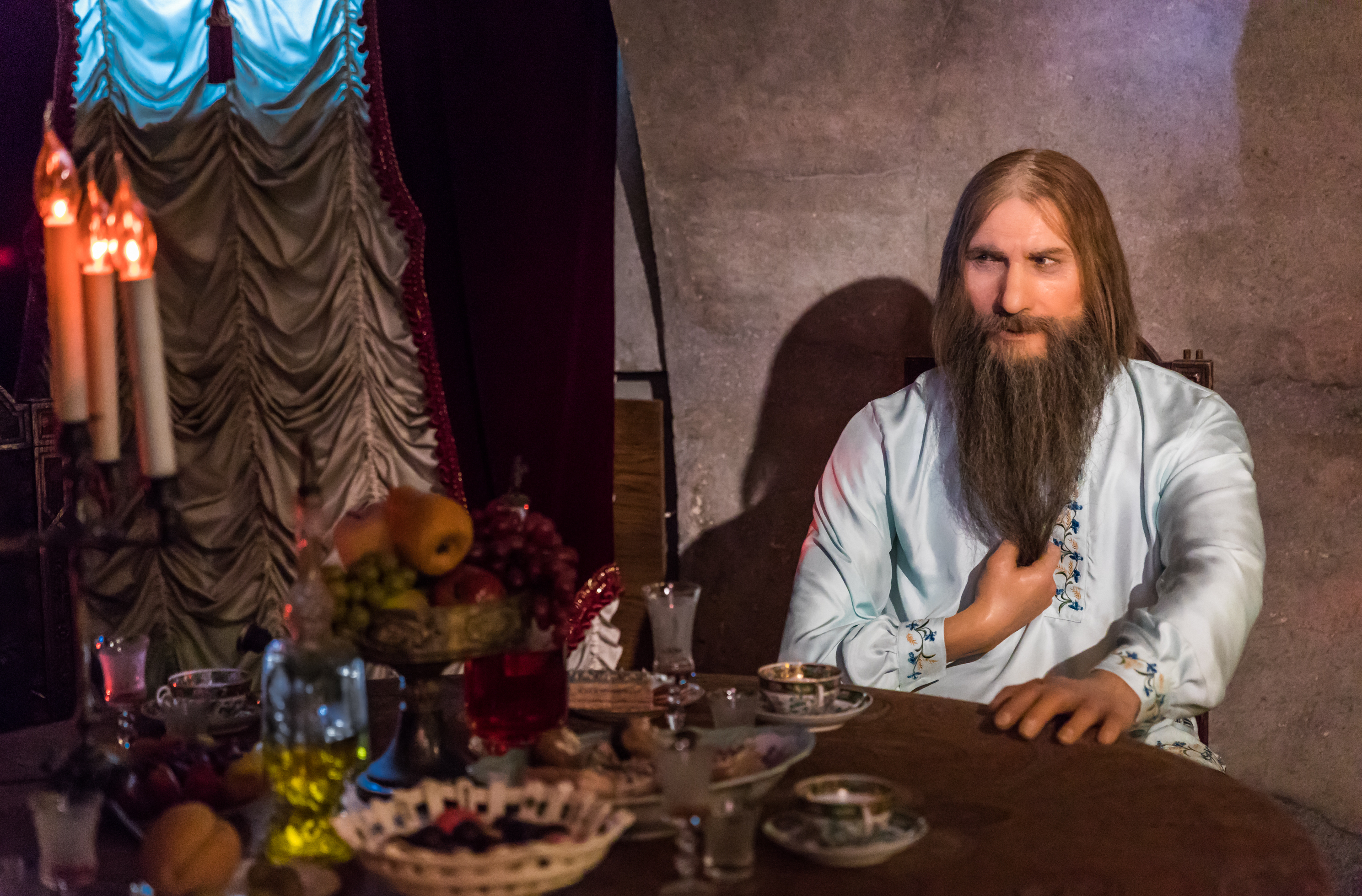 Saint Petersburg Rasputin's murder at Yusupov Palace Rasputin was murdered in 1916.